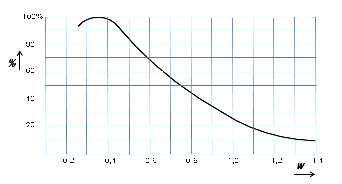 Relation between strength of concrete and water cement ratio